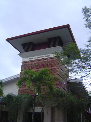 University Tower